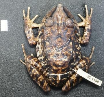 Foto tirada de fêmea da série-tipo.